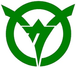 Sakado Saitama chapter